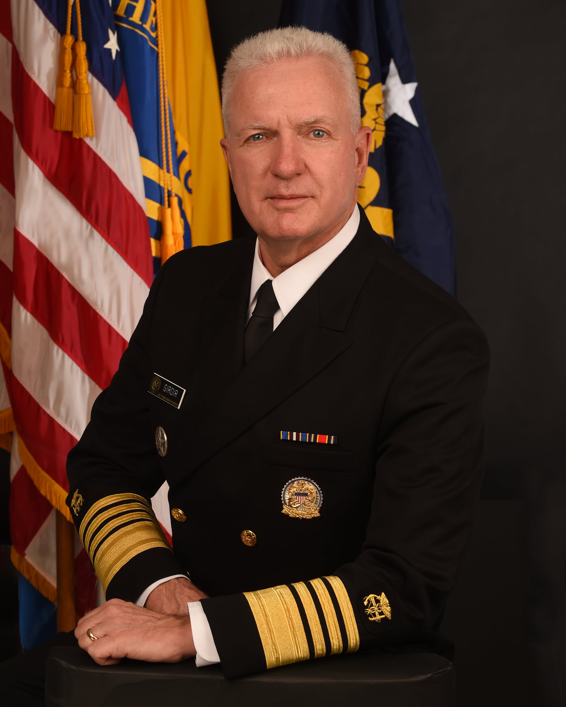 Admiral Brett P. Giroir, USPHSAssistant Secretary for Health